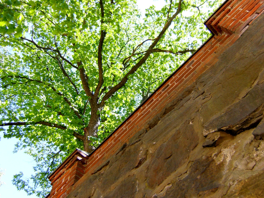 A deciduous tree above the street "Liisankatu" on an early summer's day 2008, Helsinki, Finland